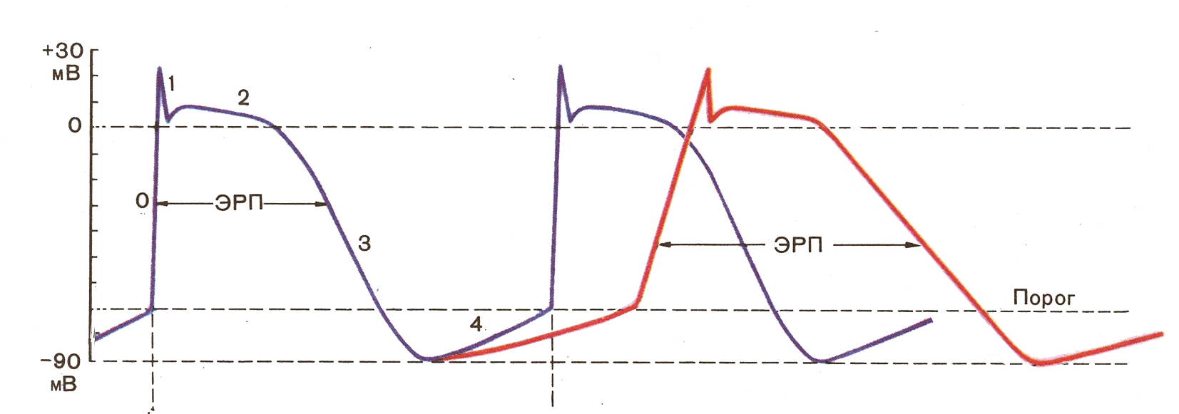 III class influence on action potential